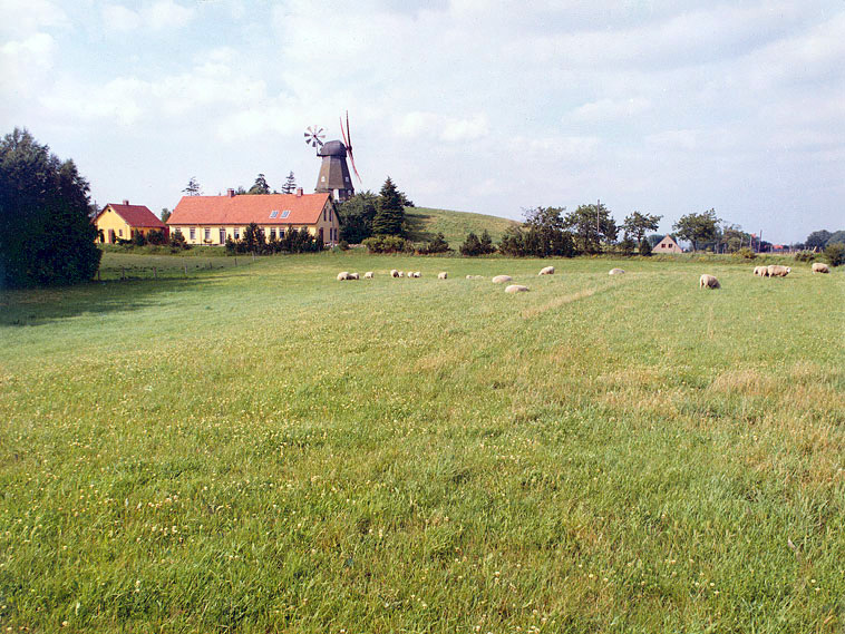 Karlebo, Sjælland, Denmark. Photo by the uploader, J. M. Rice Copyright (c) 2005 J. M. Rice. Permission is granted to copy, distribute and/or modify this document under the terms of the GNU Free Documentation License, Version 1.2 or any later version published by the Free Software Foundation; with no Invariant Sections, no Front-Cover Texts, and no Back-Cover Texts. A copy of the license is included in the section entitled "GNU Free Documentation License".